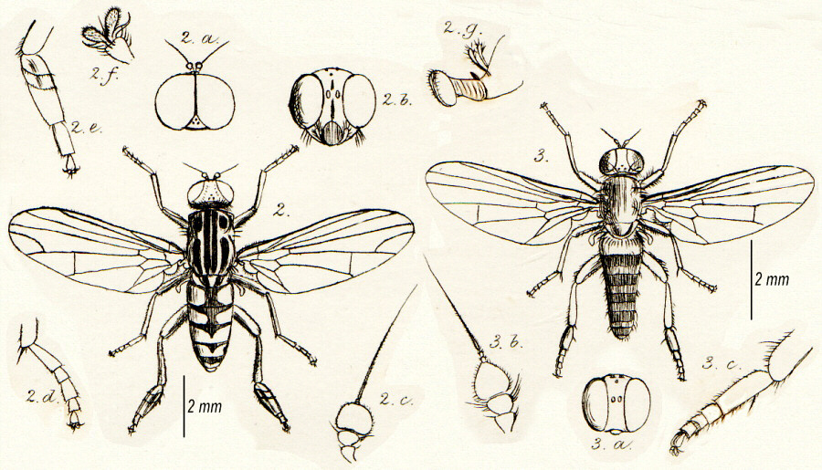 Callomyia and Polyporivora (from Walker)